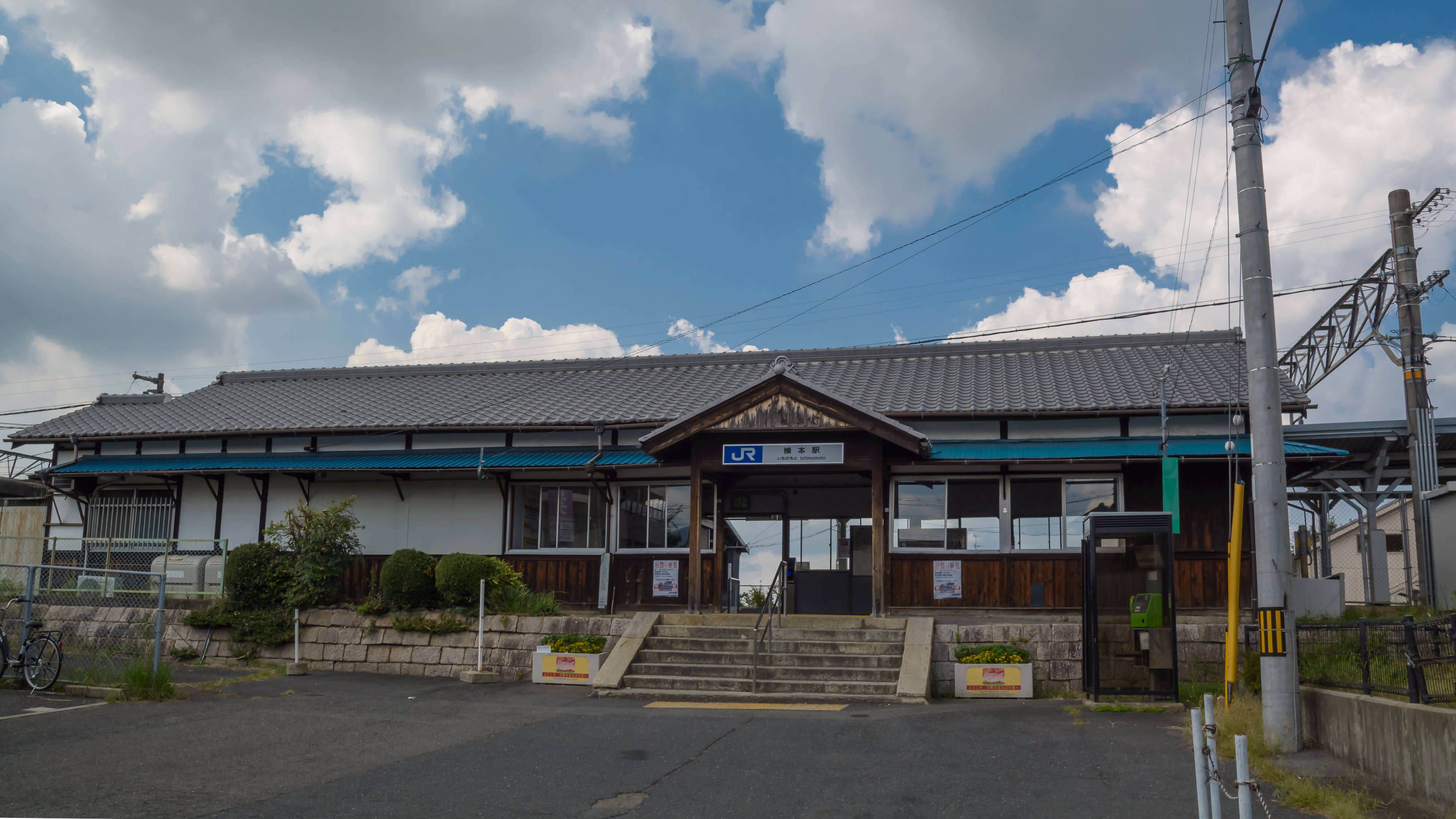 JR West Ichinomoto Station